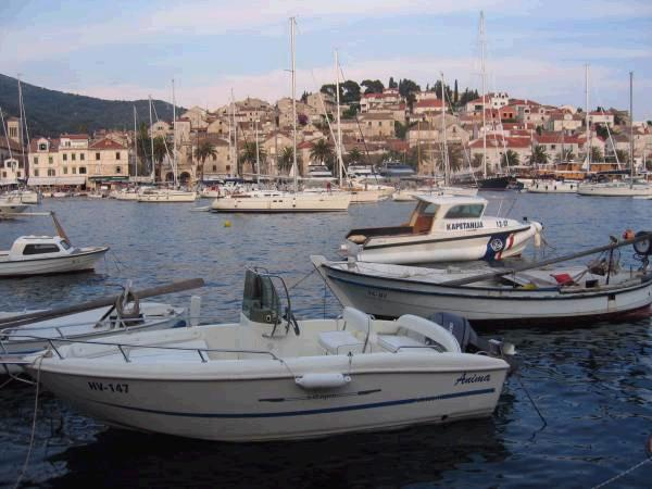 Photograph of port in Hvar, Croatia, taken in July, 2007, by Tony Aiello.